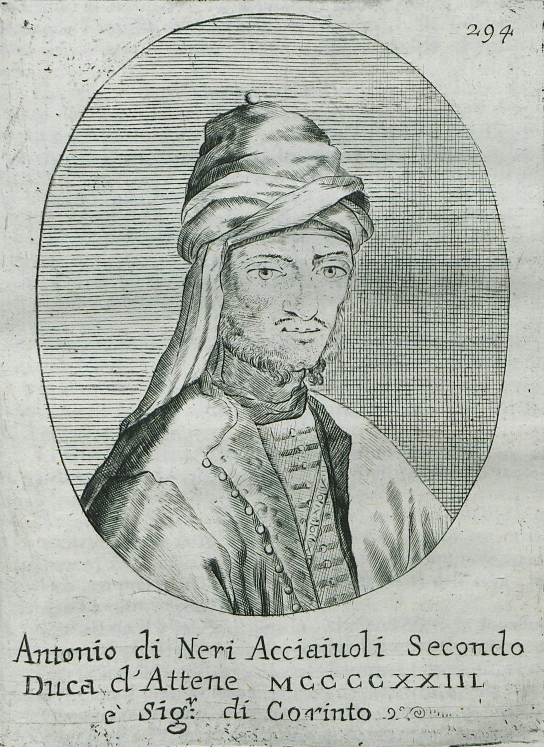 Illustration from Atene Attica Descritta da suoi Principii sino all’acquisto fatto dall’Armi Venete nel 1687…, Venice, Antonio Bortoli, 1695 edition, by Francesco Fanelli